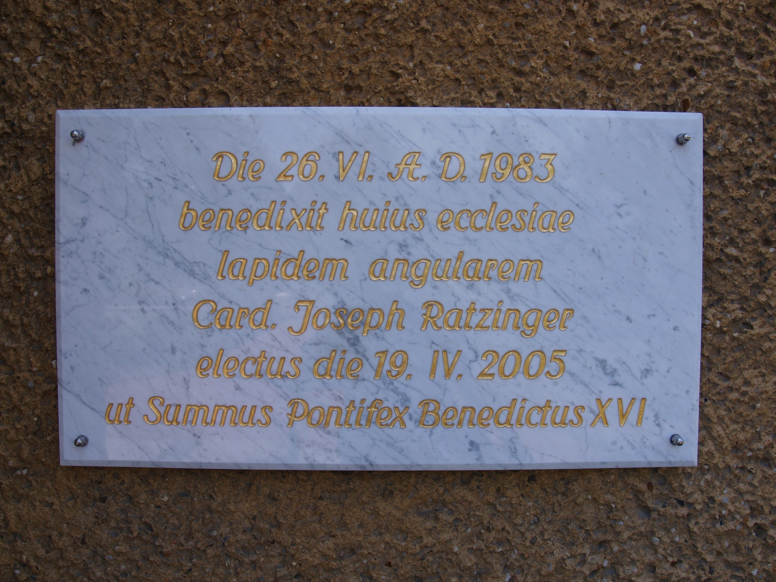 Holy Trinity church in Chorula, Poland (blessed by Cardinal Ratzinger - pope Benedictus XVI.) in 1983